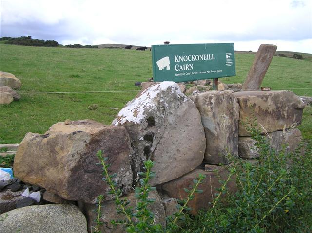 Knockoneill Cairn The monument is located behind the wall at the roadside